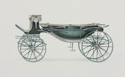 Print. One of a series of designs for various types of horse-drawn transport by J & C Cooper published in the Coachbuilders and Wheelwrights' Art Journal.